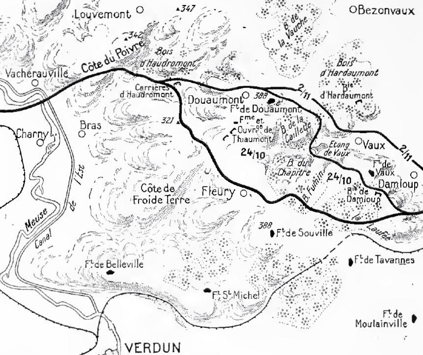 Diagram showing French counter-offensive at Verdun, 24 October 1916